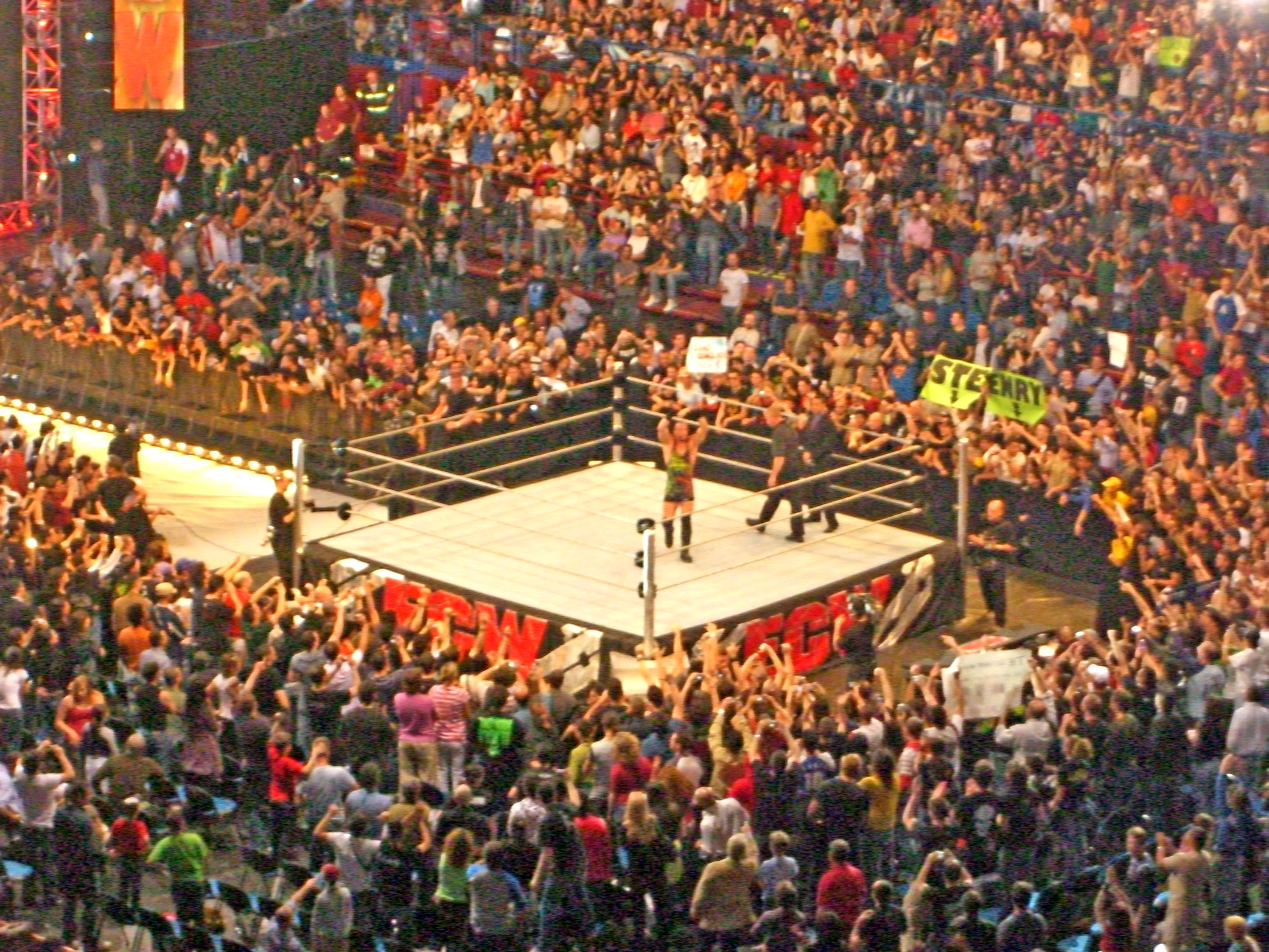 Rob Van Dam poses in the ring during a taping of ECW held at Milan, Italy.